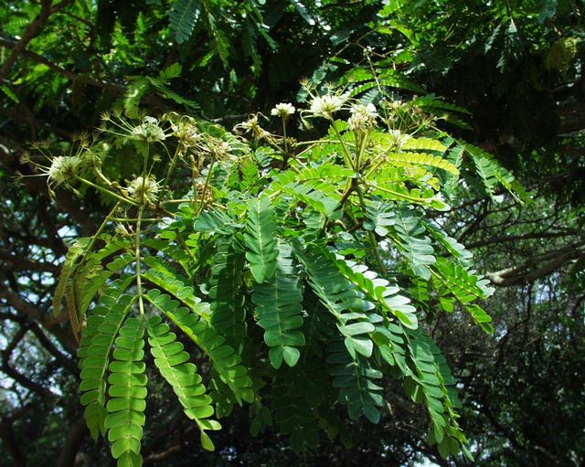 (en) Albizia adianthifolia, a photography originating of the internet site The accord of the autor, H. Brisse, is here. (fr) Albizia adianthifolia, une photographie issue du site internet L'accord de l'auteur, H. Brisse, se situe ici.